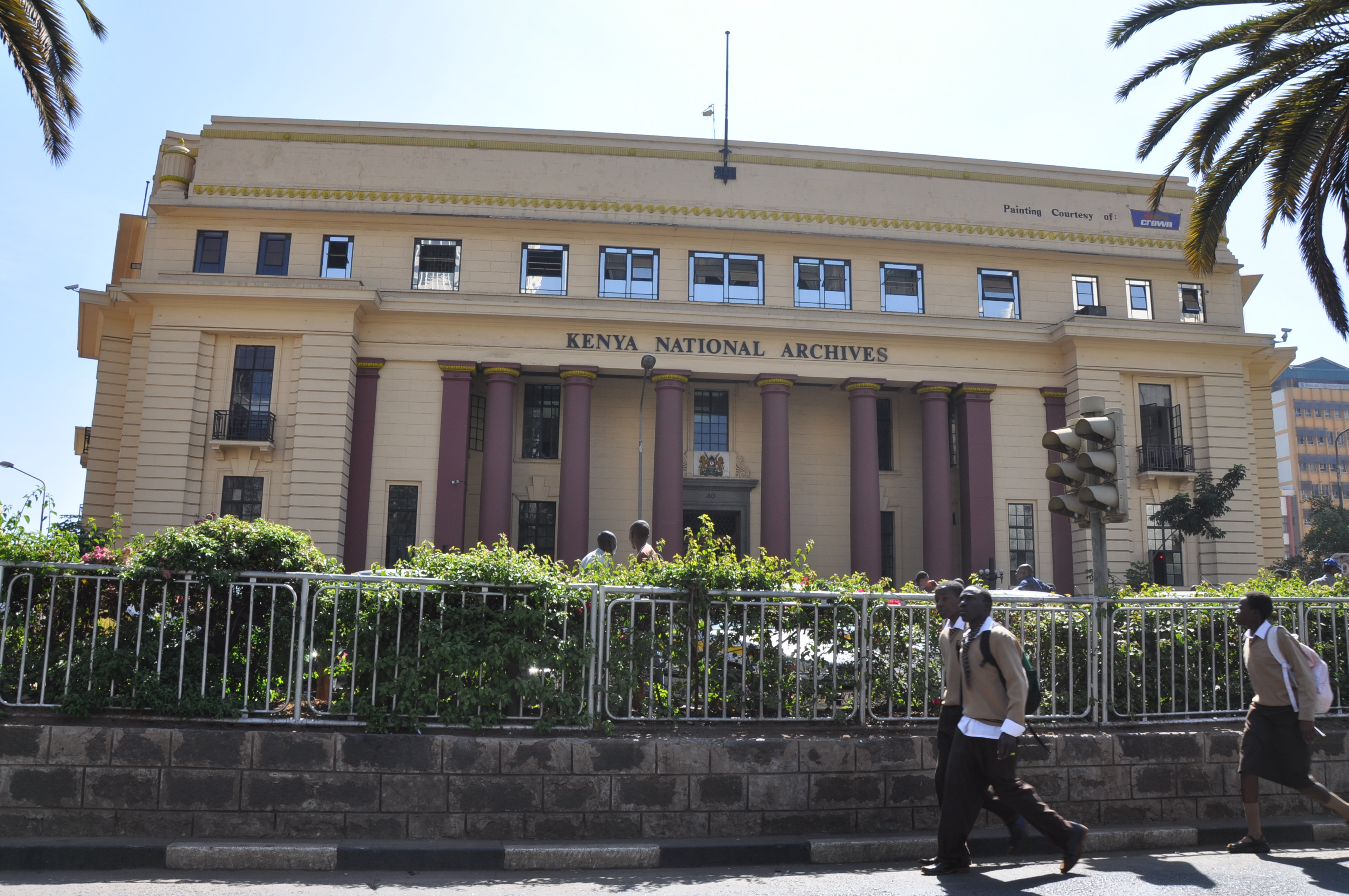 Kenya National Archives building in Nairobi. Displays include photographs of Mzee Kenyatta and Moi visiting different countries and exhibitions of handicrafts and paintings.